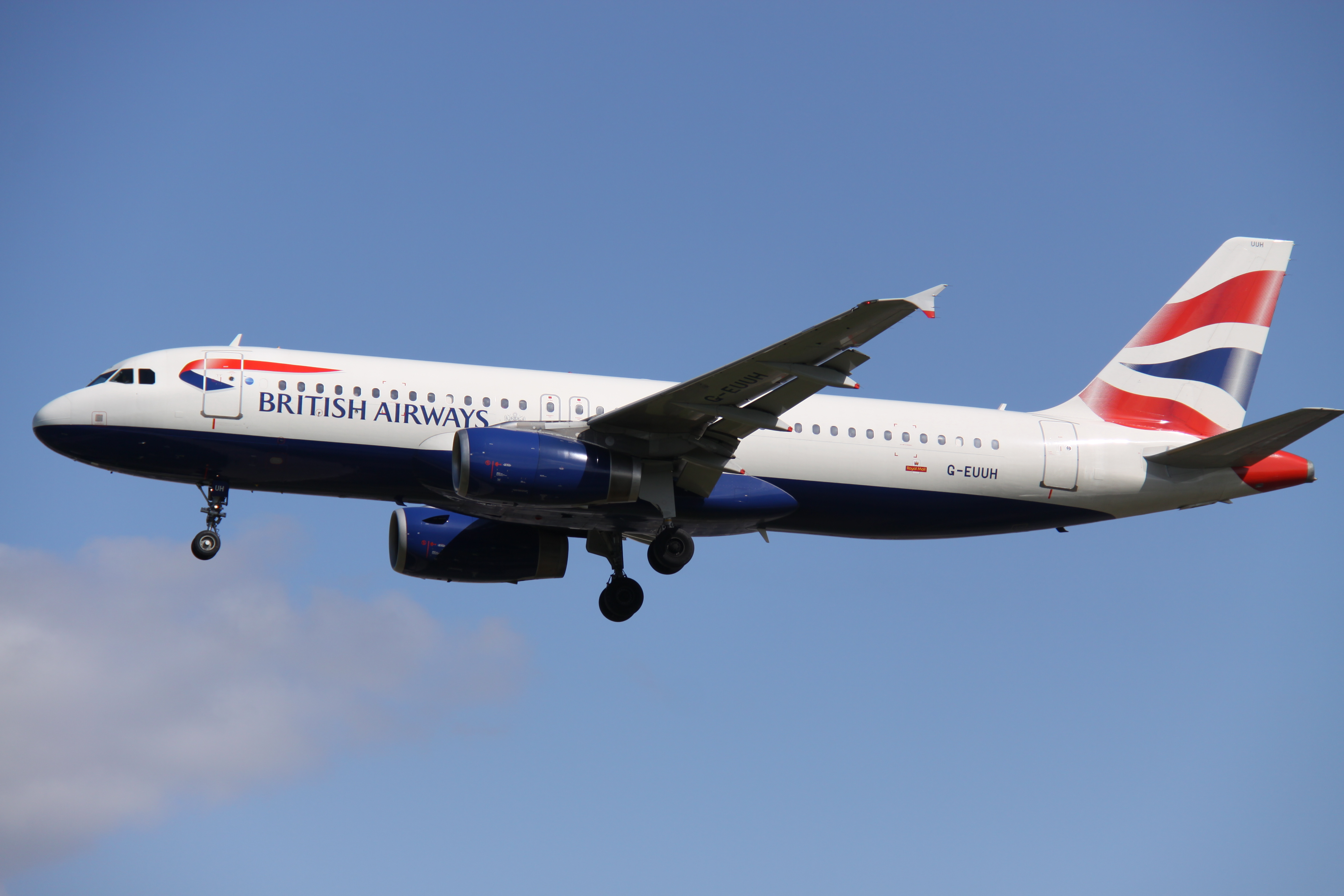 At London Heathrow